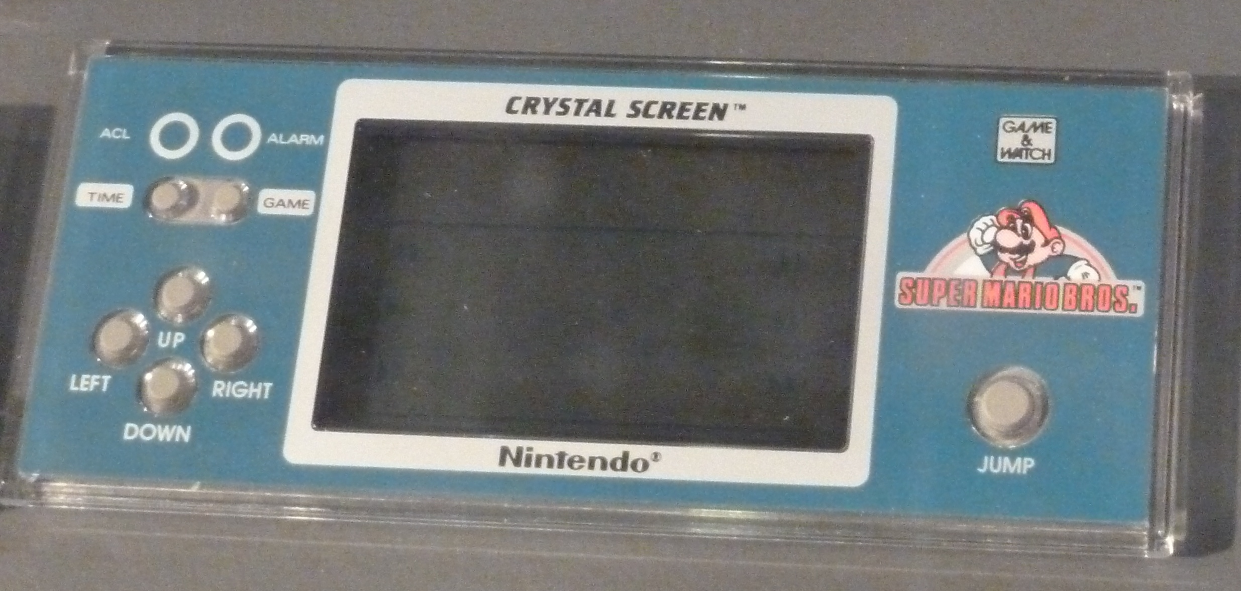 Super Mario Bros. (cristalscreen) - Game&Watch - Nintendo